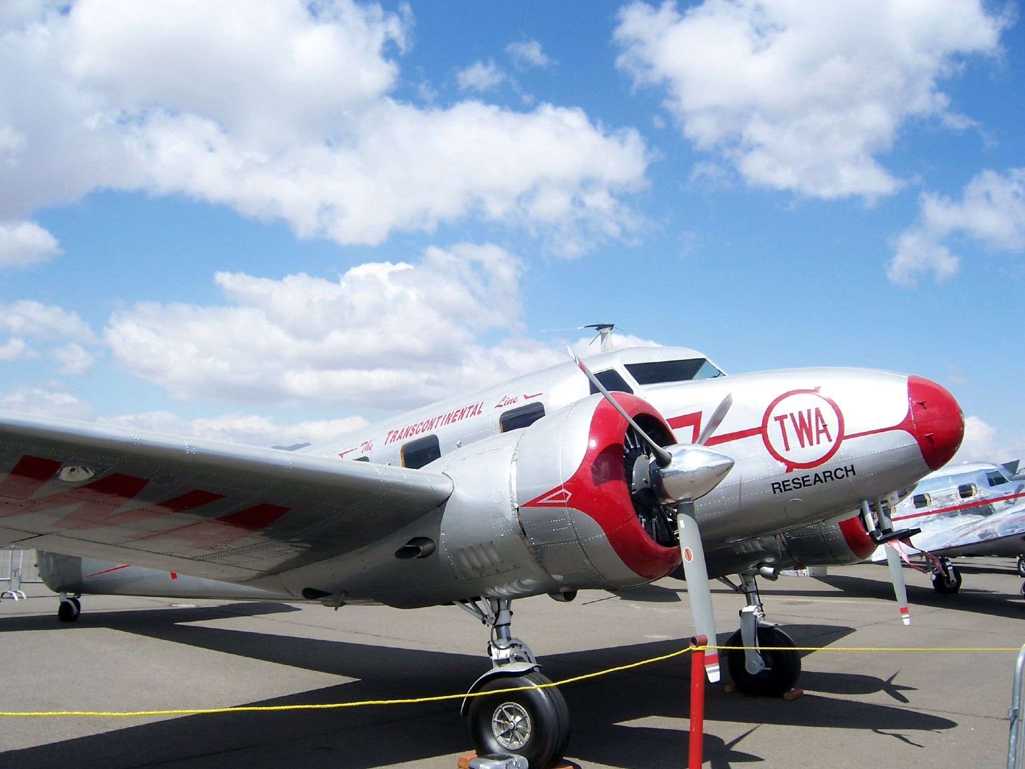 Lockheed 12A NC18137 on display at the 2006 Reno Air Races. Built in 1937 for Continental Air Lines, this airplane was transferred in 1940 to Transcontinental & Western Air, who used it as an executive transport and research aircraft. One of its frequent pilots was TWA co-founder Paul E. Richter; his daughter, Ruth Richter Holden, acquired the airplane in 2005 and restored it to its TWA appearance.